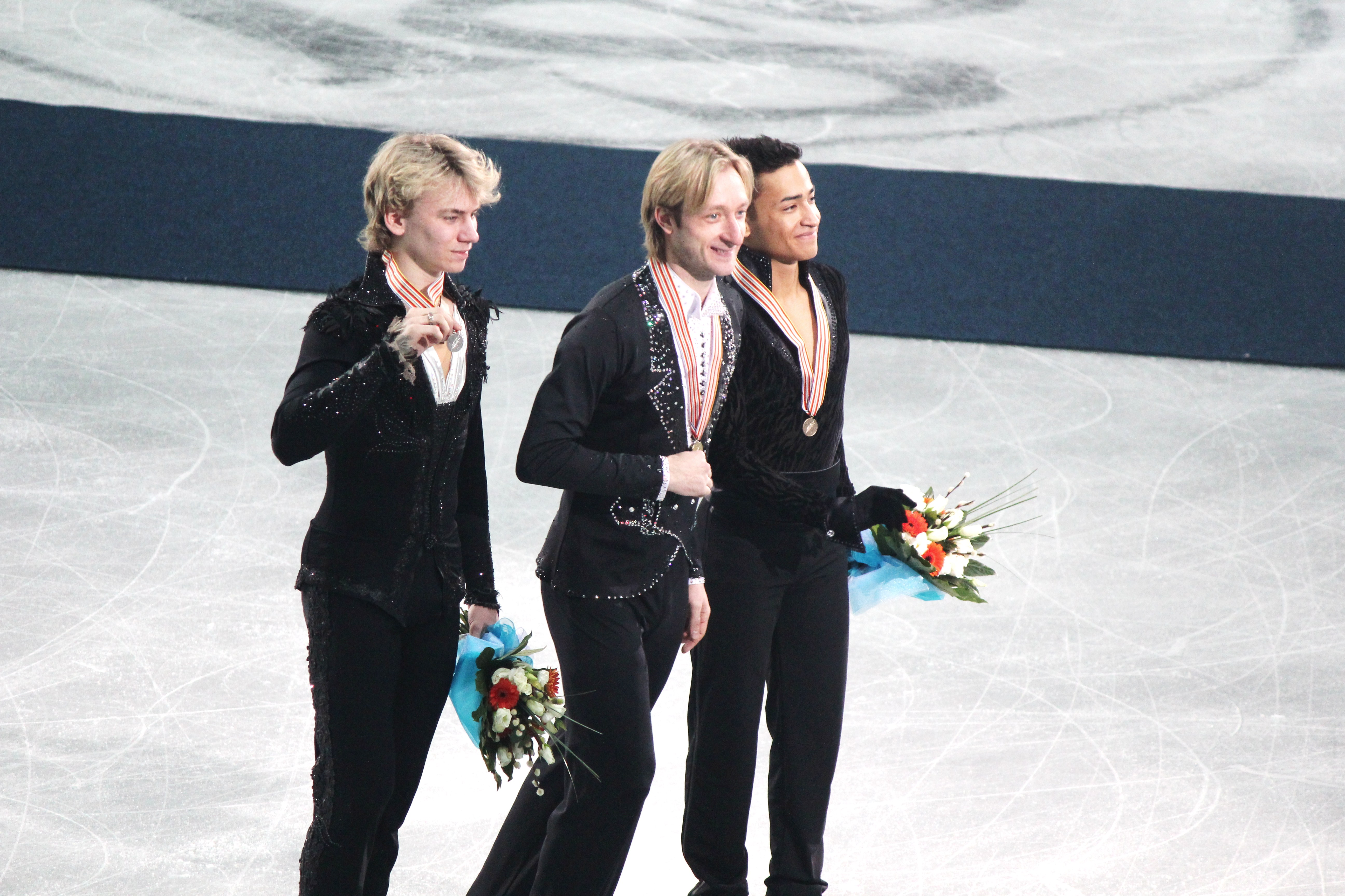 Evgeni Plushenko- Gold Medal, Artur Gachinski-Silver Medal, Florent Amodio - Bronze Medal